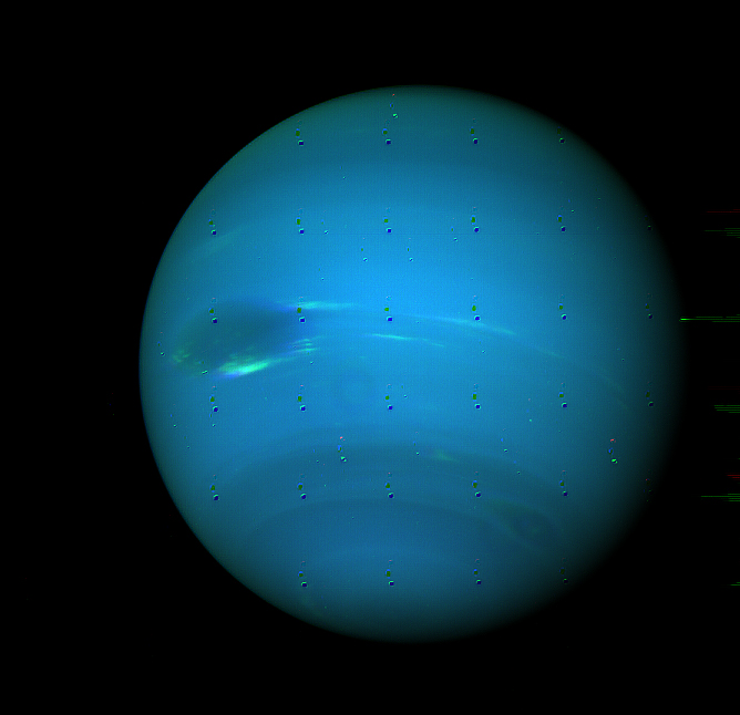 Credit: NASA/JPL